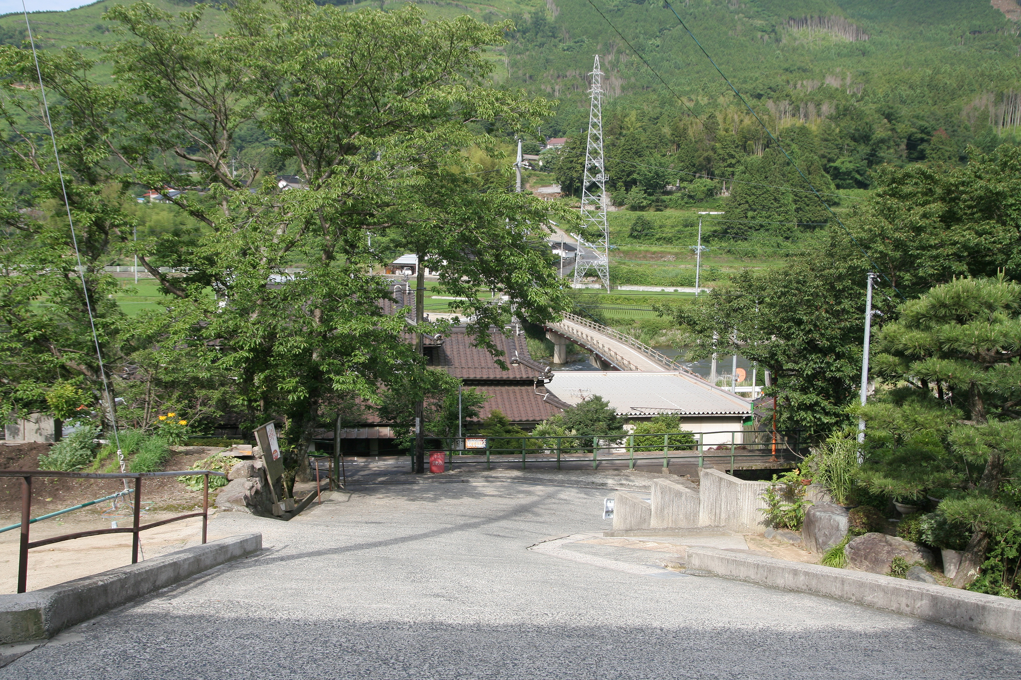 West Japan Railway Inbi Line Miura station